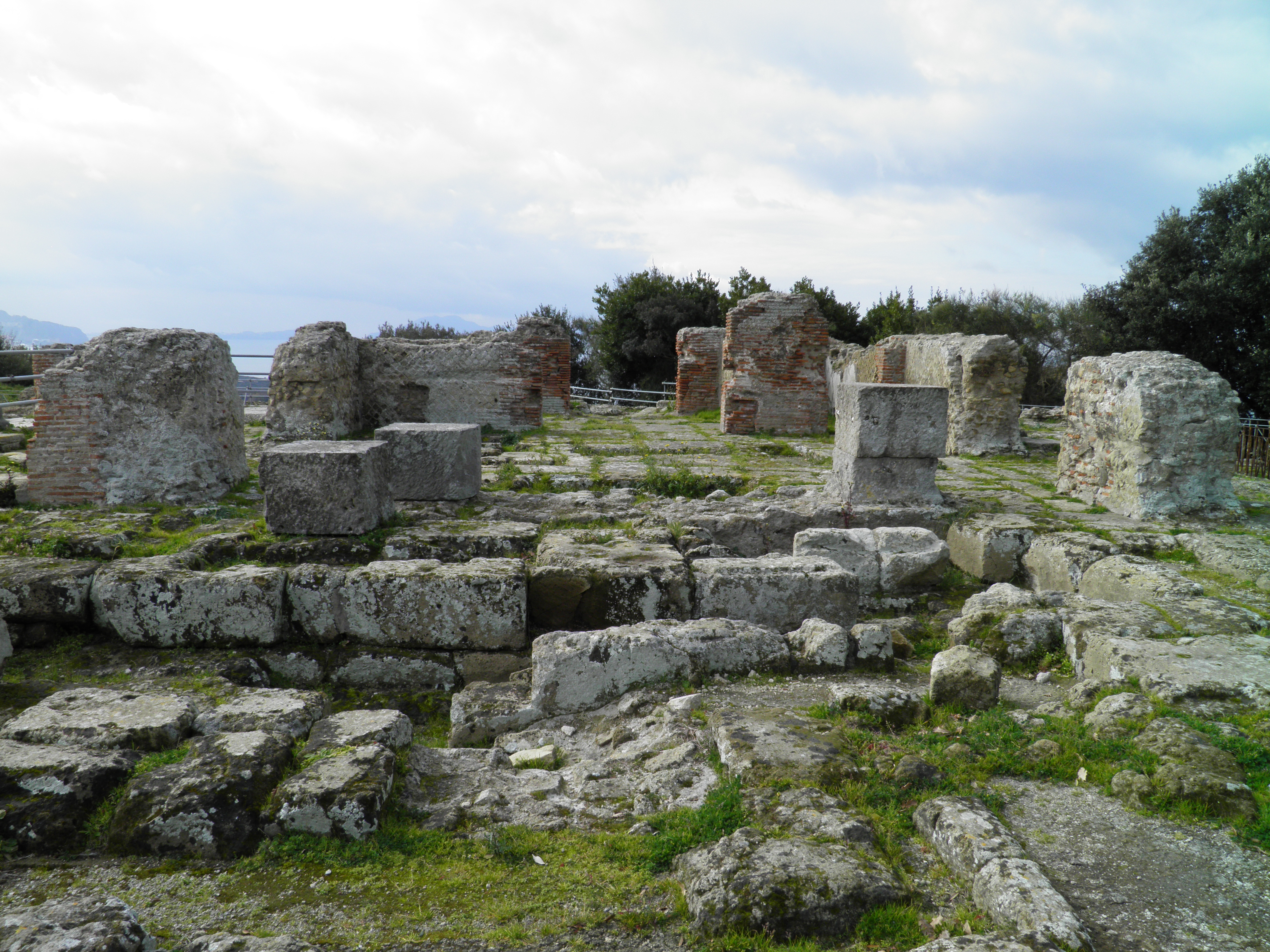 Temple of Apollo, Cumae, Italy